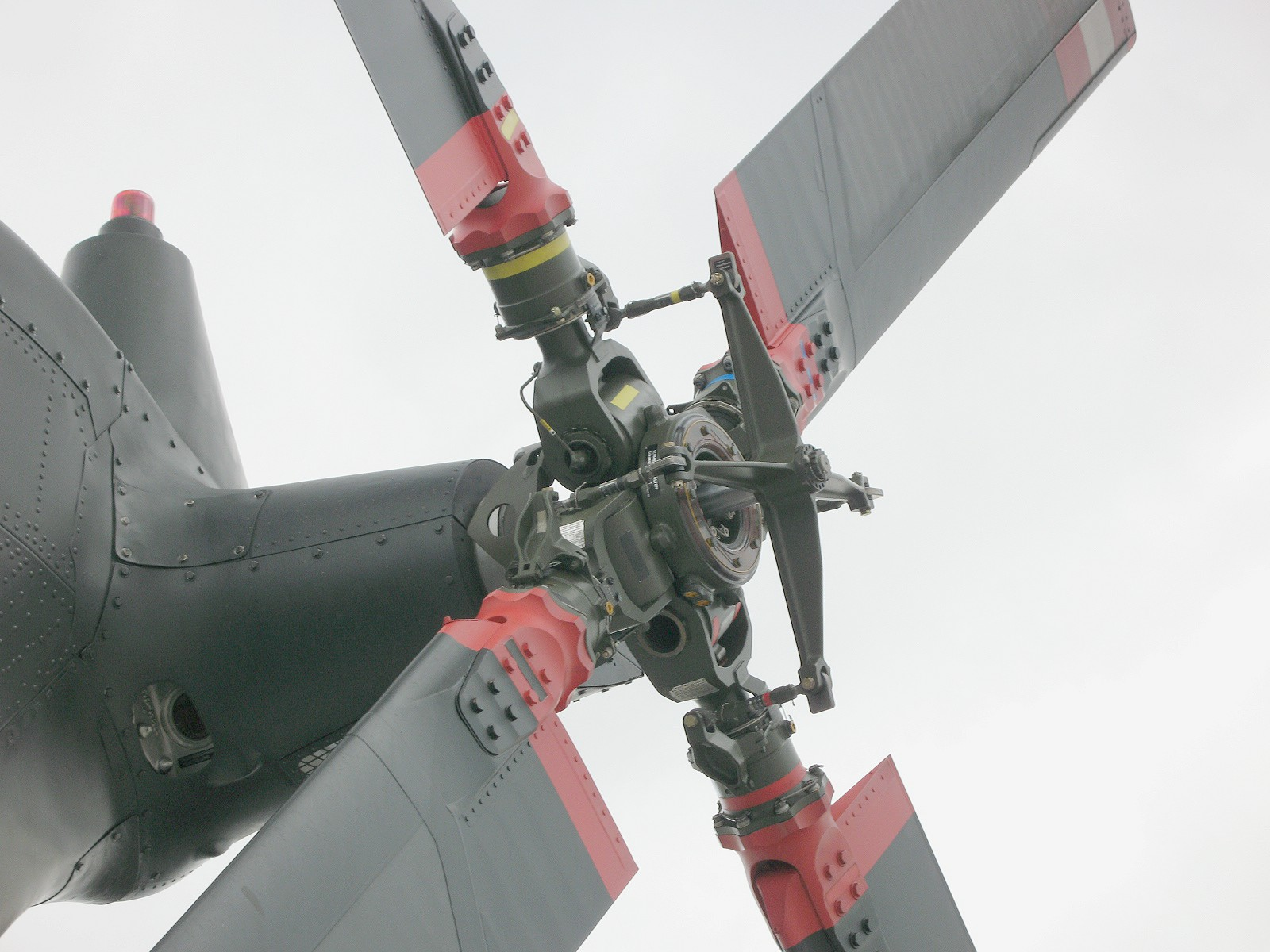 Tail rotor mechanism of a Sikorski CH-53G